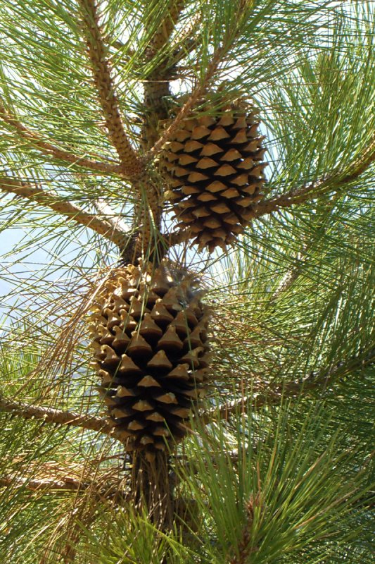 Pinus coulteri — Coulter pine, big-cone pine; cones and foliage. Strawberry Peak, Front Range of the San Gabriel Mountains, Angeles National Forest, Southern California Transverse Ranges of California.